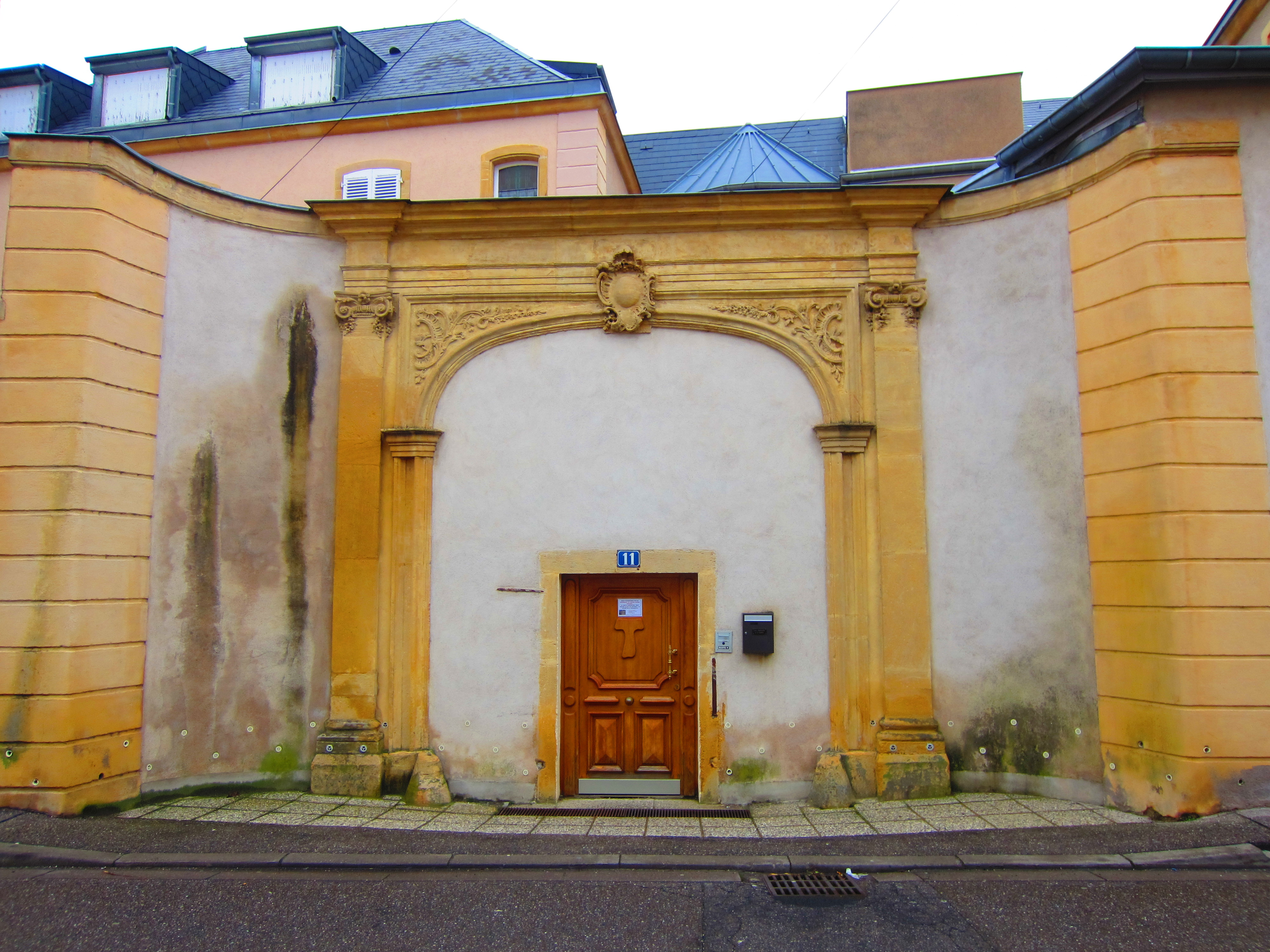 Ban st Martin couvent